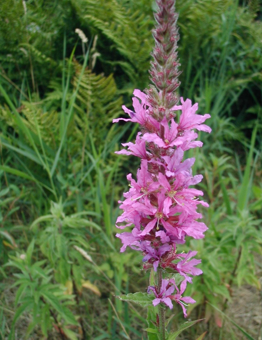 Lythrum salicaria: Flower head.